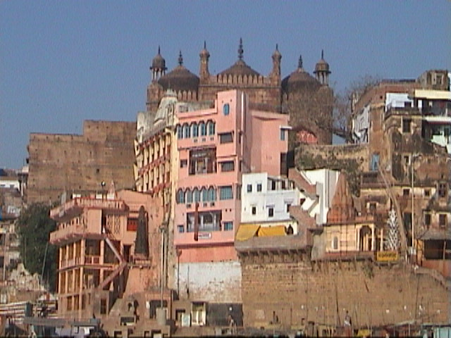 See Varanasi Development Cooperation Handbook/Stories/Responsible Development - Varanasi The Varanasi Heritage Dossier Kautilya Society Play media Vrinda Dar - How we got involved in heritage protection of Varanasi